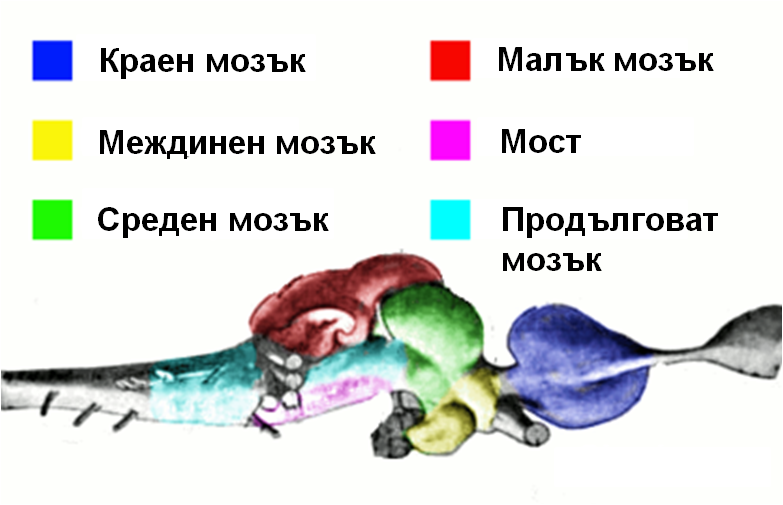 Main regions of the vertebrate brain, shown for a shark brain